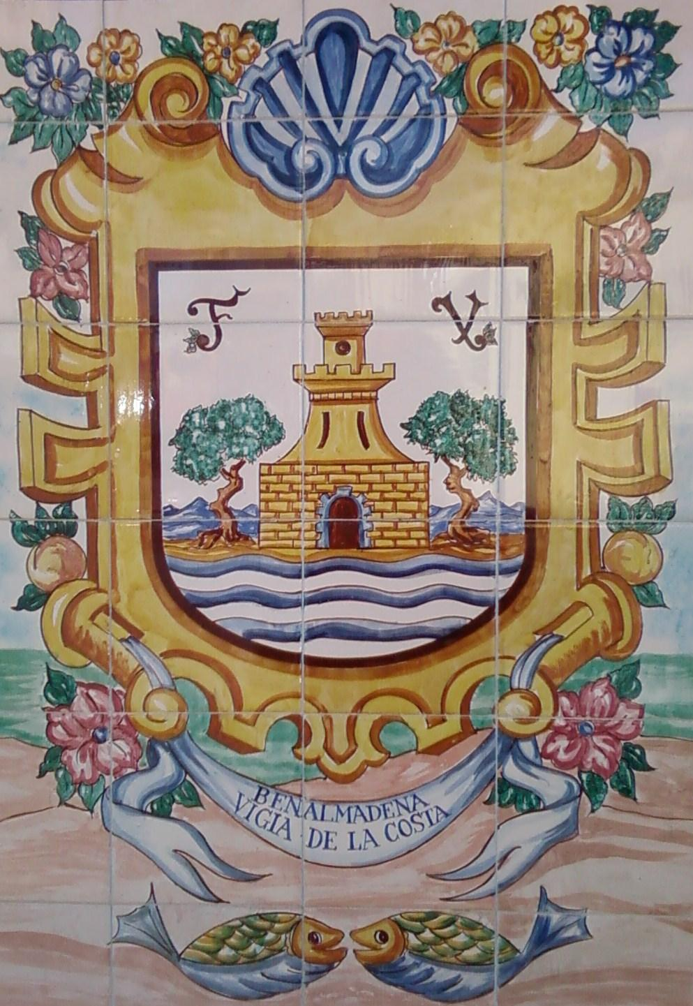 Detail of a glazed ceramic tile by A. Ruiz de Luna showing the former version of the coat of arms of the municipality of Benalmádena, Málaga, Spain in an ornamented form.